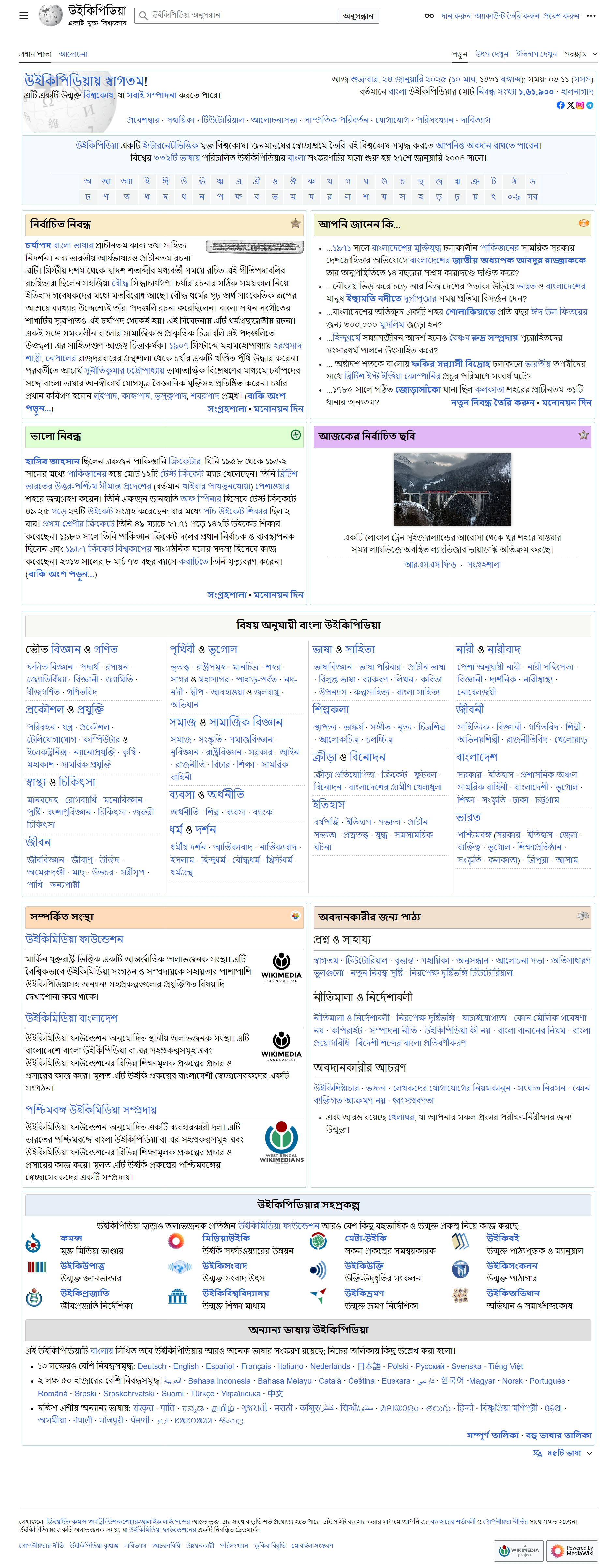 Screenshot of the main page of Bangla Wikipedia, taken on January 11, 2015